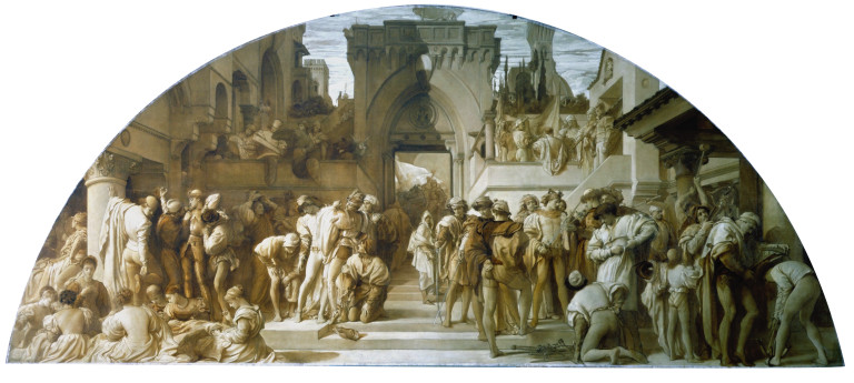 Cartoon for the fresco The Arts of Industry as Applied to War, 1870-72, Frederic Leighton V&A Museum no. 296-1907 Technique - Oil on canvas Dimensions - Height 193 cm, width 449.6 cm